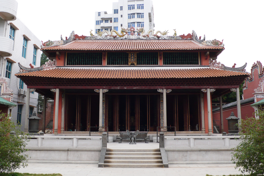 更多haier7917的中国古建照片/ more photos of ancient chinese architecture by haier7917：